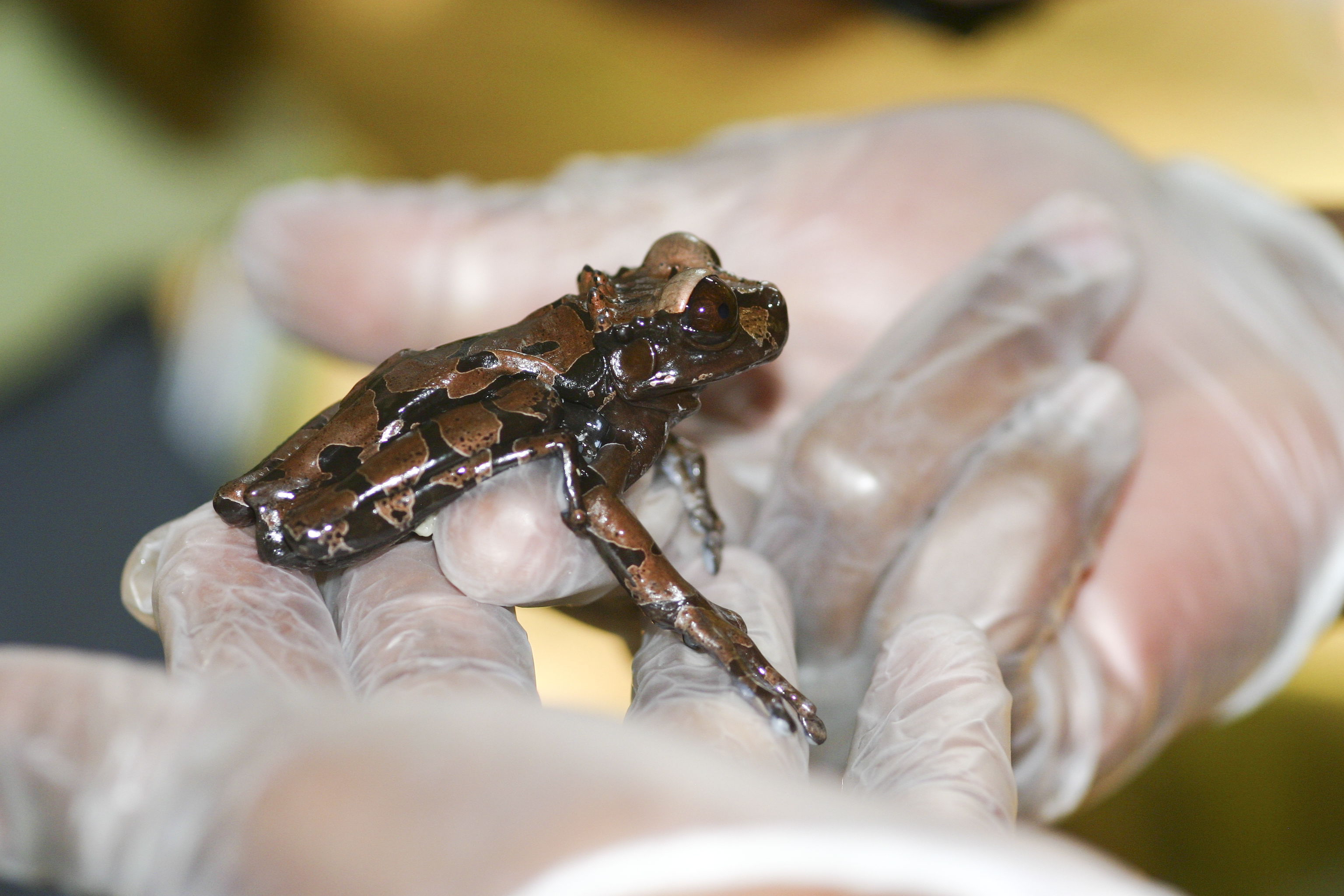 Anotheca spinosa